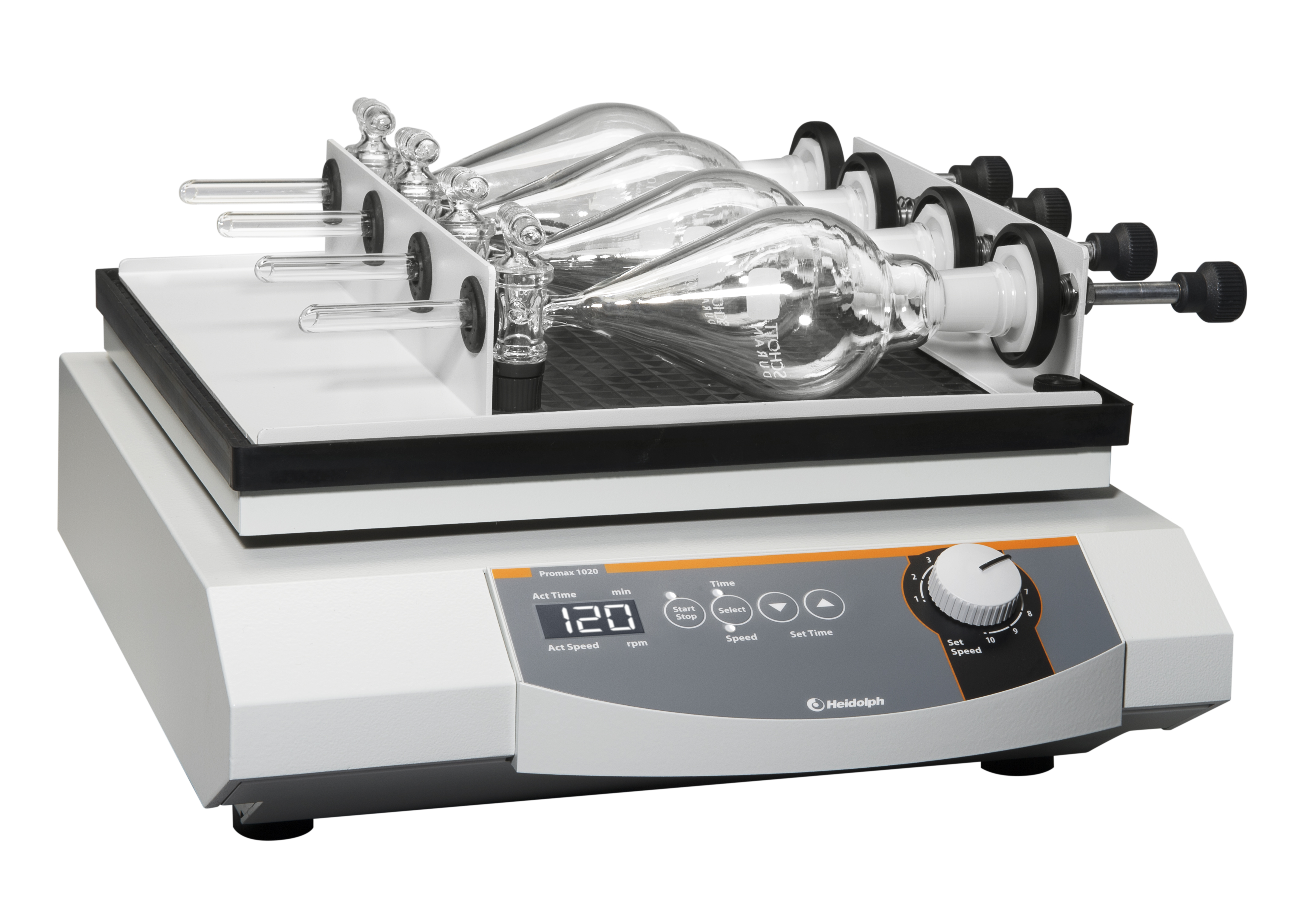 platform benchtop shaker